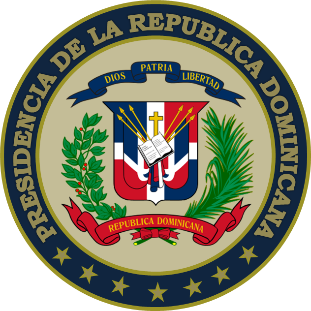 PresidentialSeal